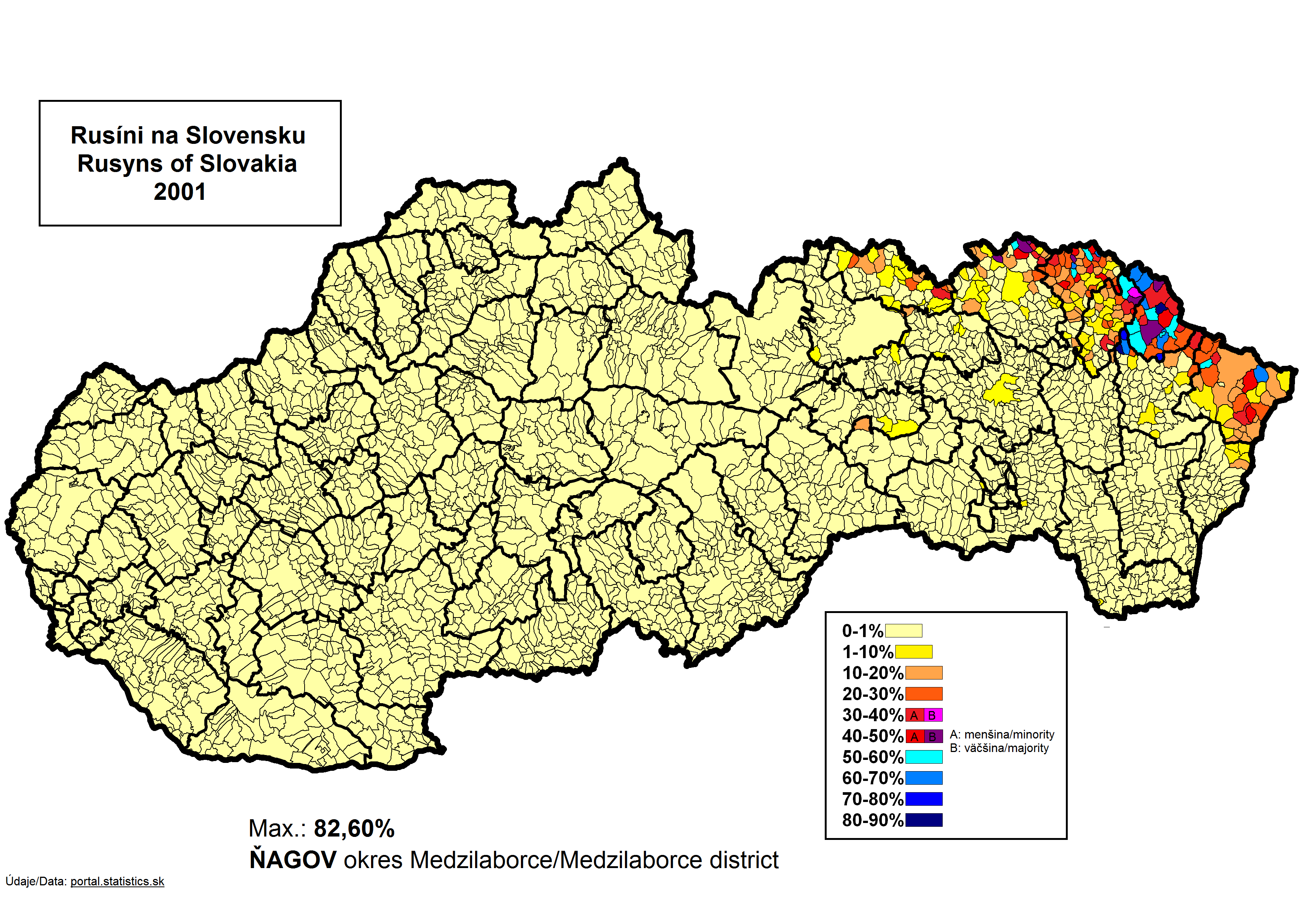 Rusyns of Slovakia in 2001.